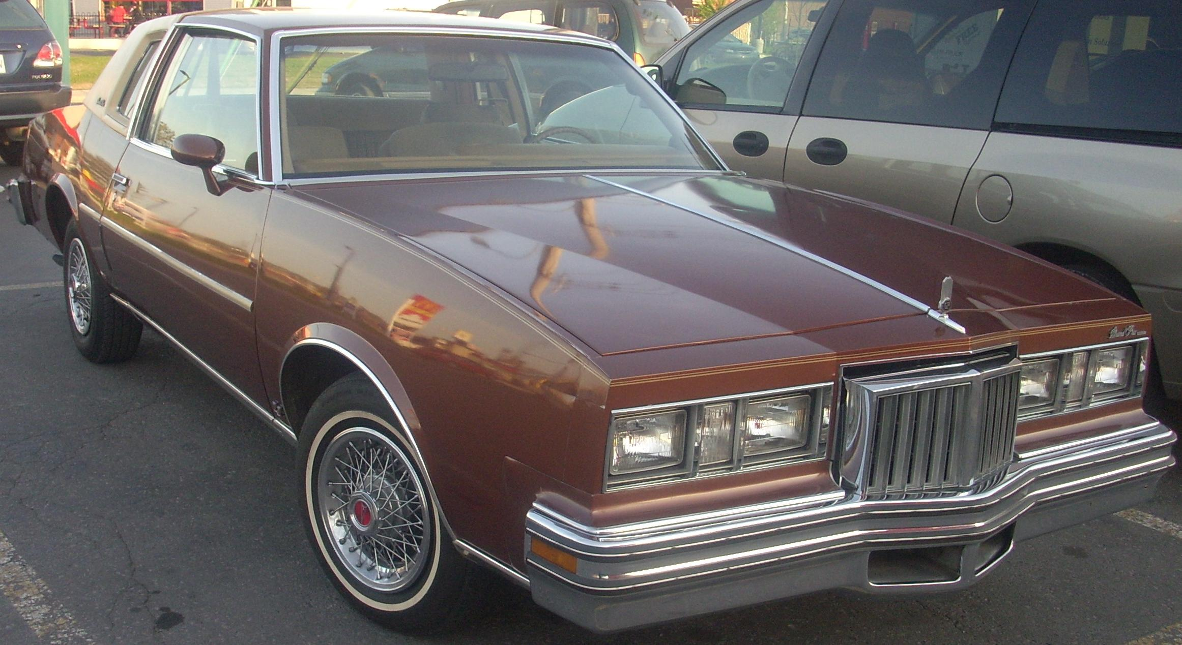 Pontiac Grand Prix photographed in Montreal, Quebec, Canada at Gibeau Orange Julep.